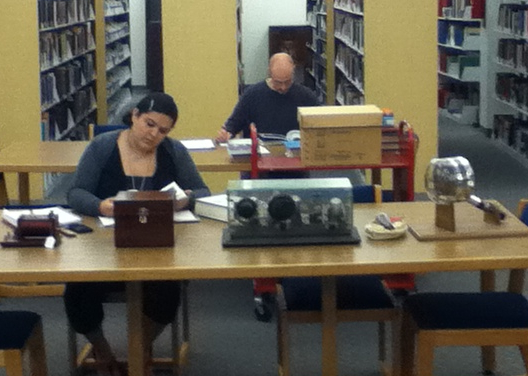 Students and scholars can study a wealth of materials and artifacts available at the Broadcasting Archives.